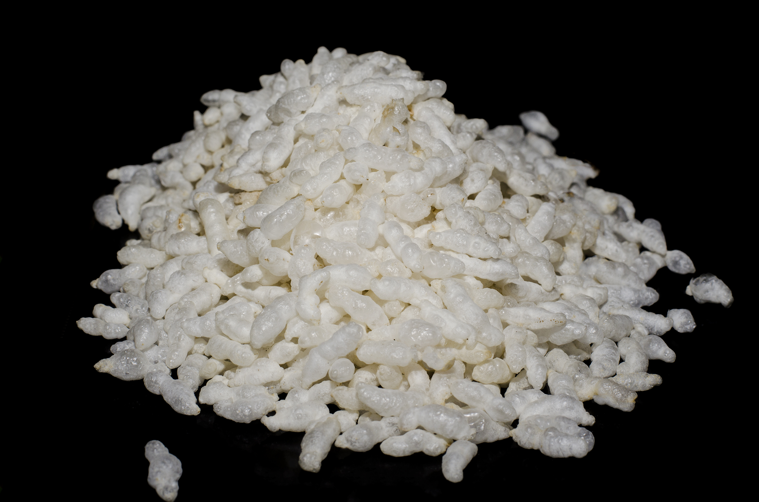 Puffed Rice